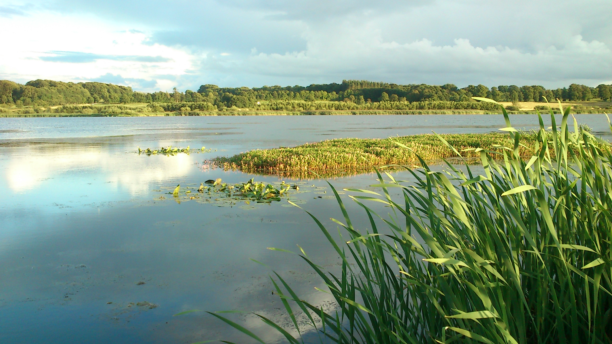 The rich fen ecology is returning to the lake.